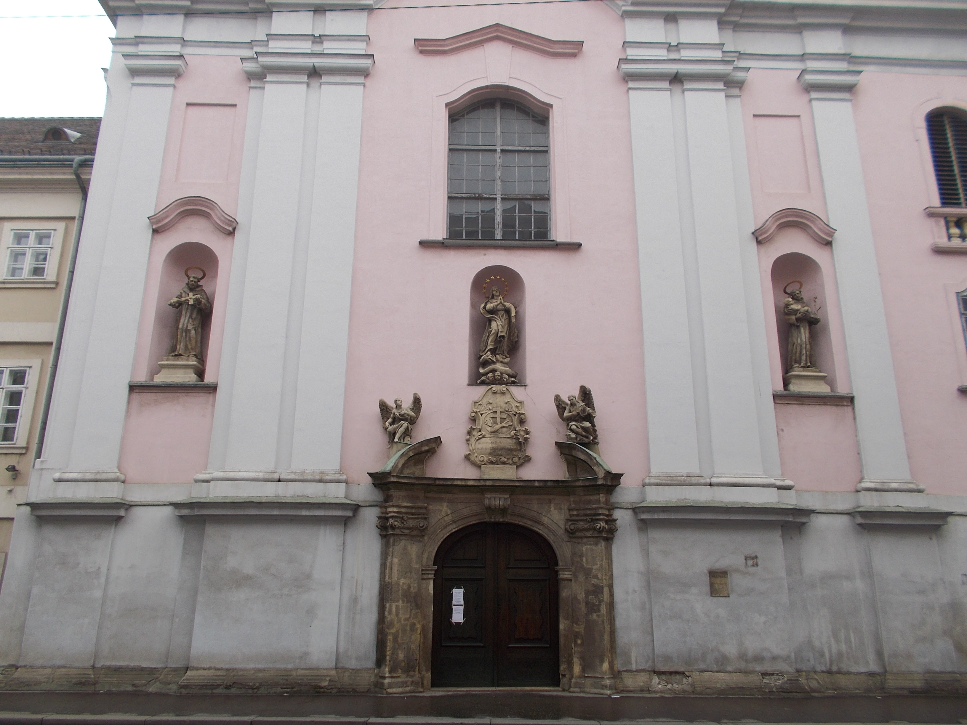 Facade of the Church of Saint Francis. Listed ID 41. worshiping angel statues with with the coat of arms of Saint Francis order (the two crossed arms with wounded hands, one of its is symbol of the Savior, the another symbol of Saint Francis of Assisi, above the arms a double cross is situated), under the coat of arms is Latin inscription: It shows the beginning of the construction of the church (1731), and its completion (1740), above the coat of arms is the statue of the Immaculate Virgin (trample a serpent's head, the serpent winding around the globe, three angel's head appears under the globe. North of the statue of the Immaculate stand the statue of Saint Francis of Assisi with the child Jesus. South of the Immaculate stand (in a niche) a statue of Saint Anthony of Padua, holding a crucifix. - Fő Street, Bem rakpart. Budapest District I., Hungary.